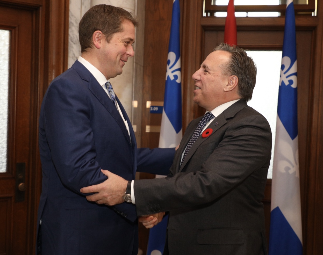 Together provincial and federal governments should be working to tackle challenges facing Quebecers. This morning I sat down with Premier Francois Legault to talk about introducing a single tax return, opening up interprovincial trade, and building the third link to the East.